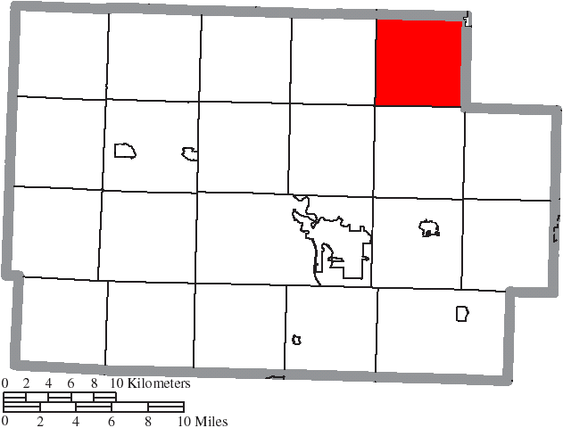 Map of the municipal and township boundaries of Coshocton County, Ohio, United States, as of the 2000 census, with the location of Crawford Township highlighted. Township borders are shown only in unincorporated areas in order to differentiate incorporated and unincorporated areas more clearly.